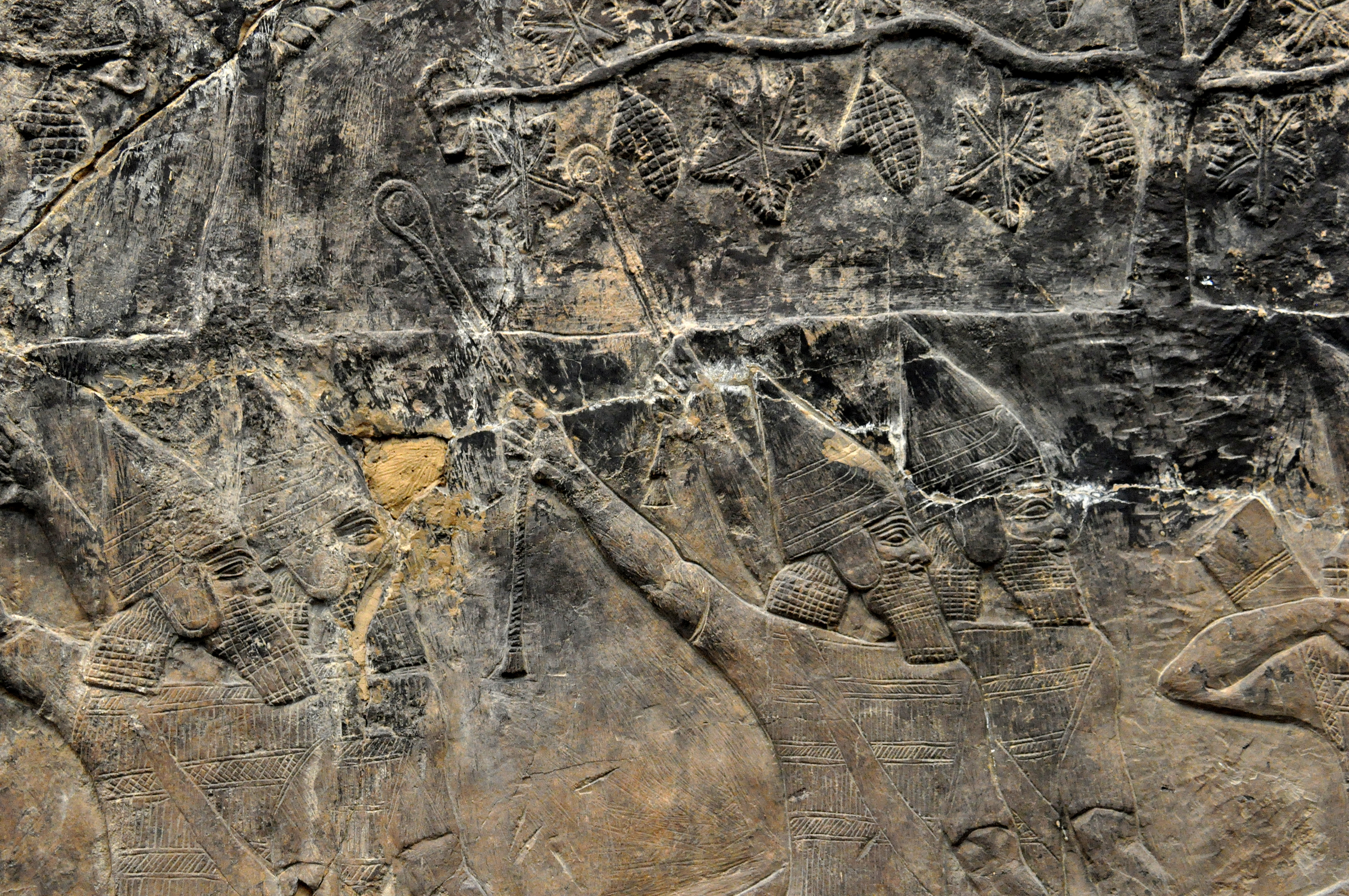 Assyria slingers hurling stones towards the enemy at the city of -alammu. The name of the city was mentioned completely, but only the last part of the city's name, -alammu, survives. The city probably lies in modern-day Turkey or Iran. Detail of a gypsum wall relief dating back to the reign of Sennacherib, 700-692 BCE, from the South-West Palace at Nineveh, Mesopotamia, modern-day Iraq. Currently housed in the British Museum, London.